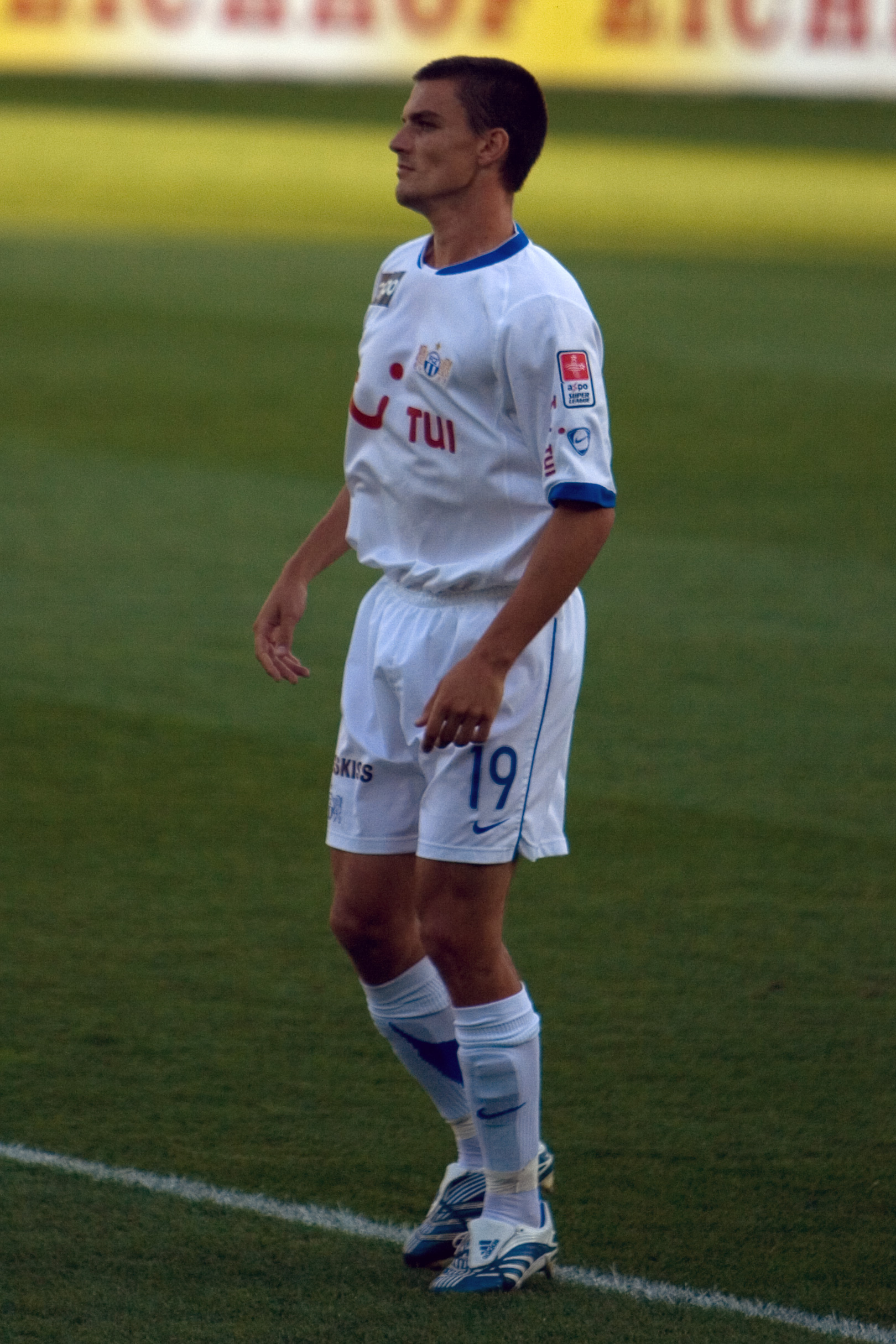 Alain Rochat, soccer player FC Zurich